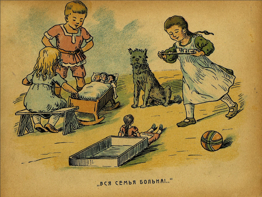 The whole family is sick!..